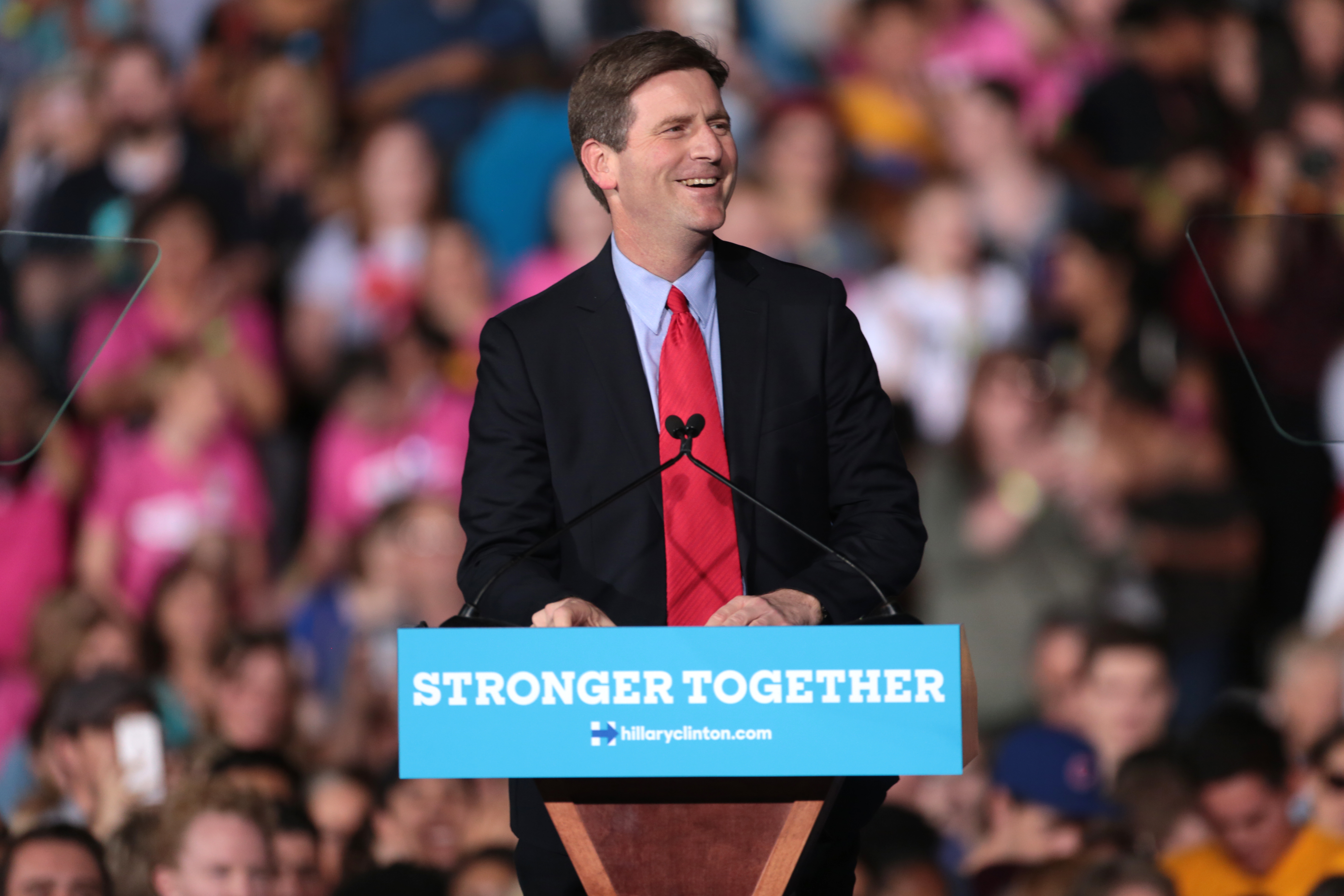 Mayor Greg Stanton speaking with supporters of former Secretary of State Hillary Clinton at a campaign rally at the Intramural Fields at Arizona State University in Tempe, Arizona.